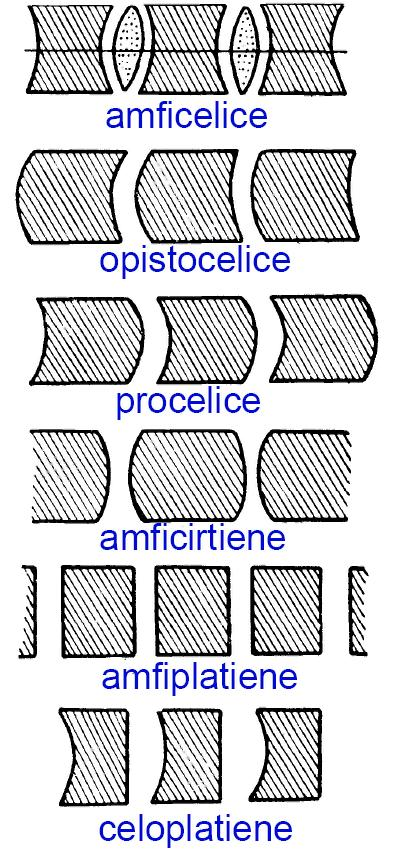 Vertebral types